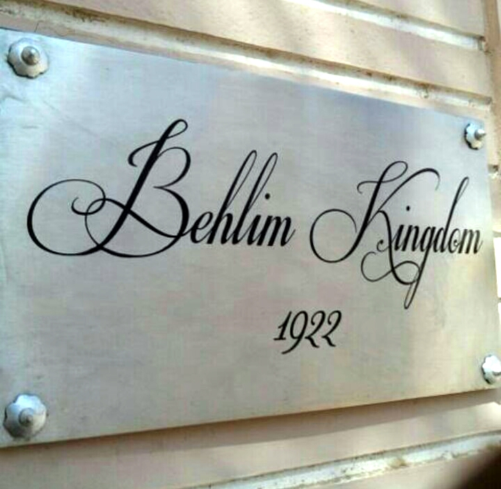 The signage at the main Daruja (Gate) of Behlim Kingdom.